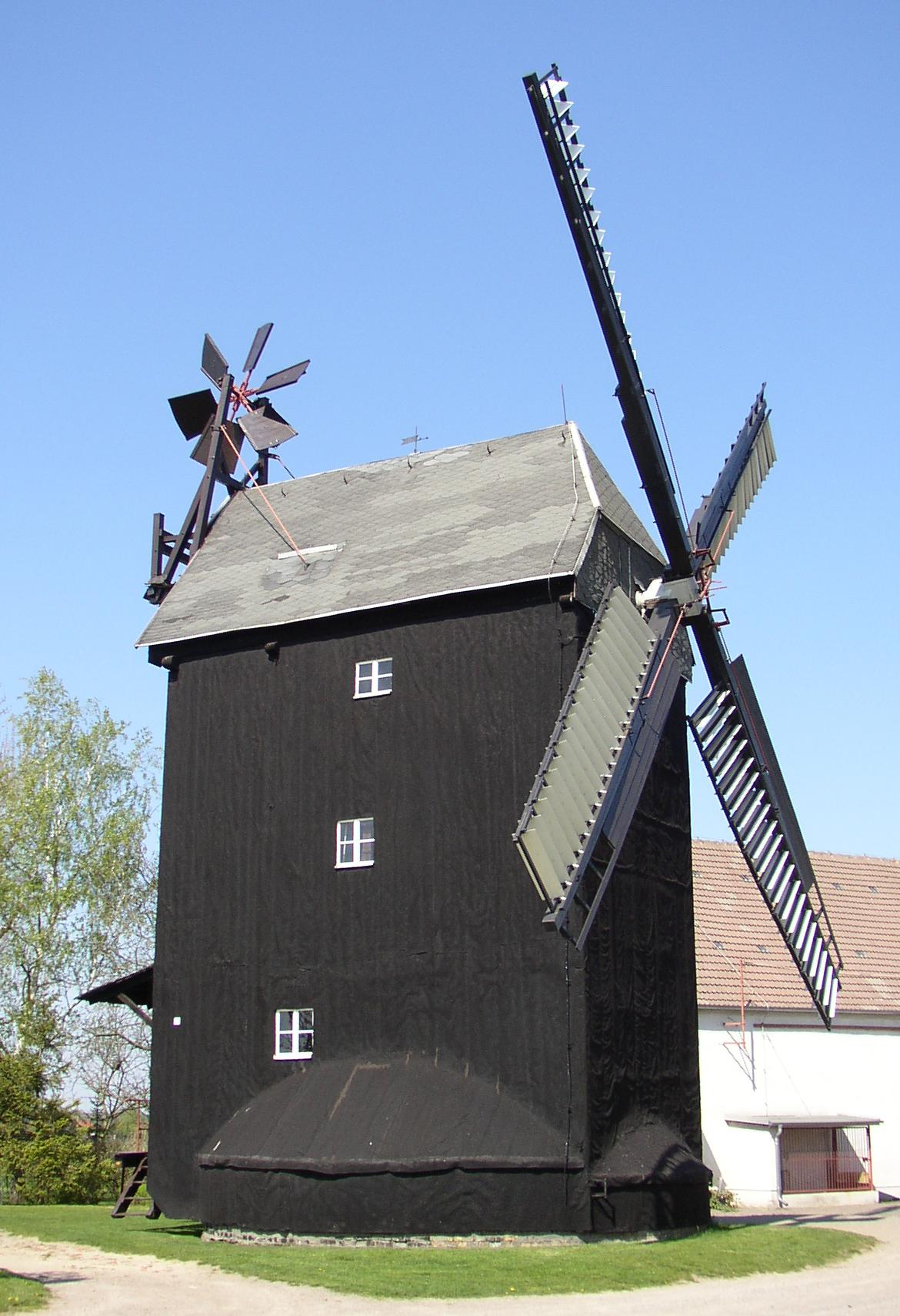 Windmill in Mockrehna-Audenhain in Saxony, Germany